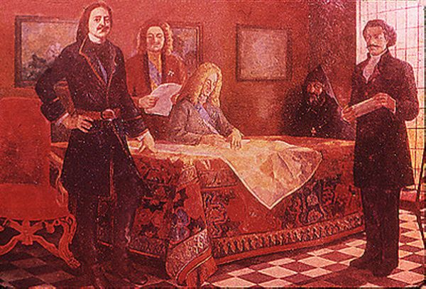 Israel Ori and Johann Wilhelm II (color).